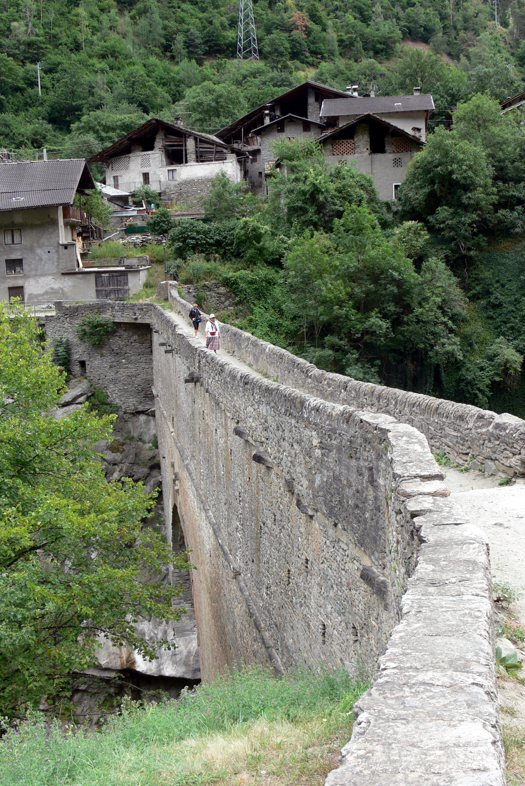 Pondel ( Aosta Valley ). Roman aquaeduct of Pont d'Aël ( 3 BC ): Way over the bridge with view of Pondel village.